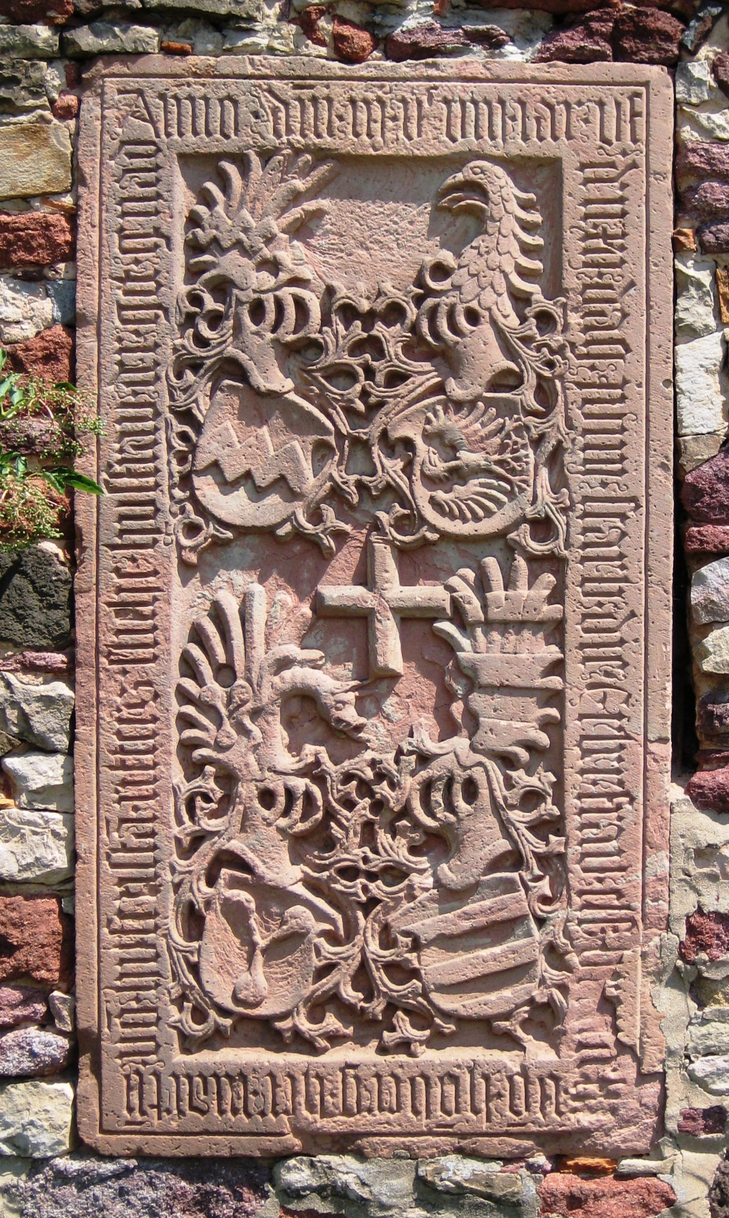 Heusenstamm, Hesse, Germany, former cisterian and benedictine monastry Patershausen. grave plate of Elisabeth Brendel von Homburg, mother of bishop Sebastian von Heusenstamm